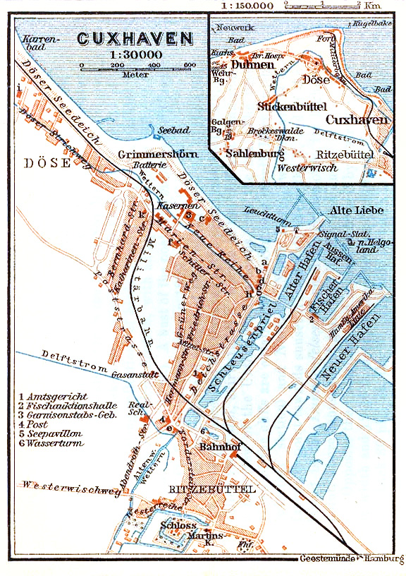 Map of Cuxhaven, Germany, 1910